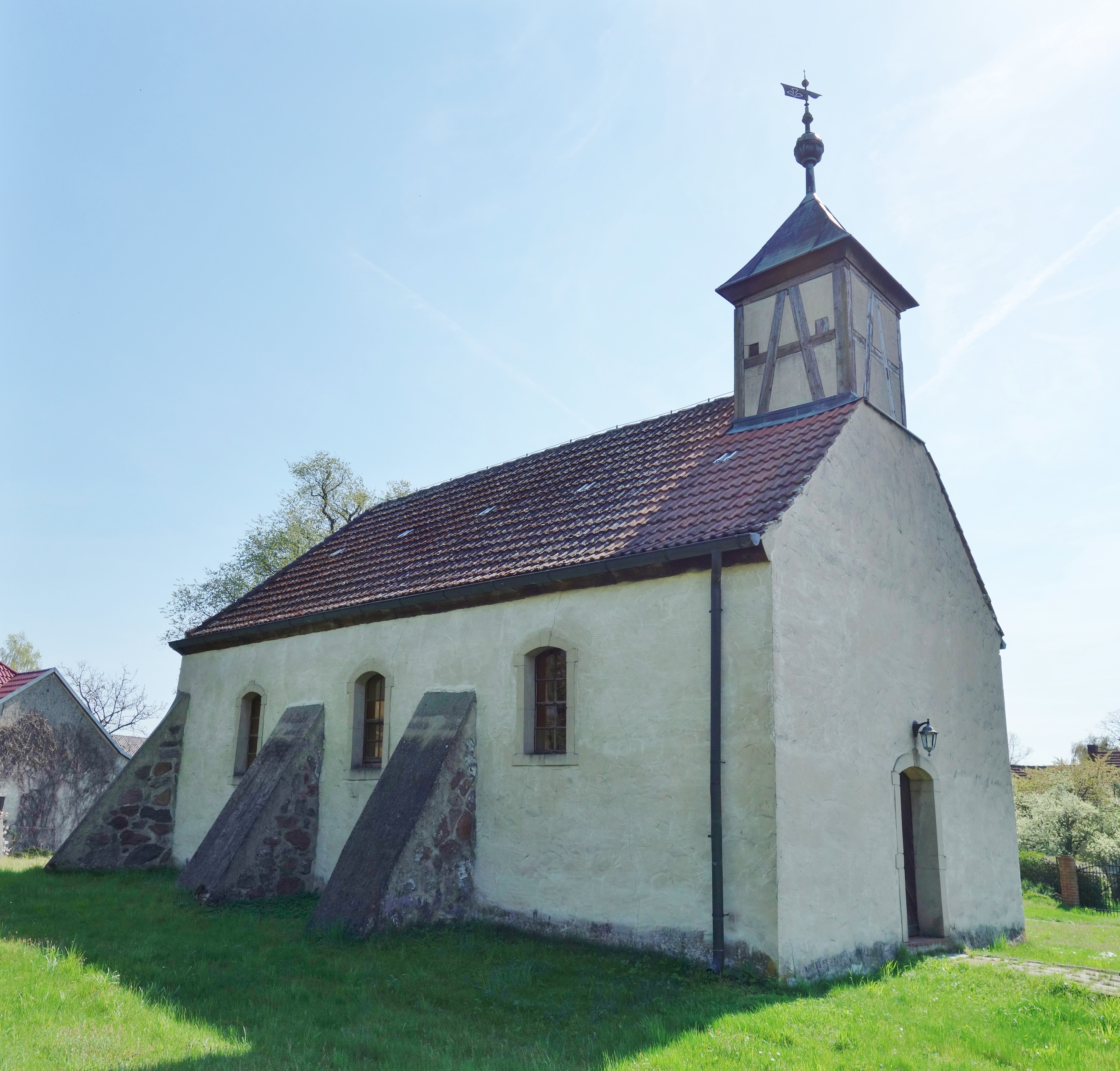 North-western view of the church and butresses on the northern wall in Schmögelsdorf , Treuenbrietzen municipality, Potsdam-Mittelmark district, Brandenburg state, Germany